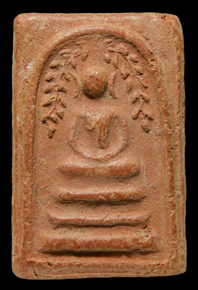 This is Somdej of Phrawimondhammaphan